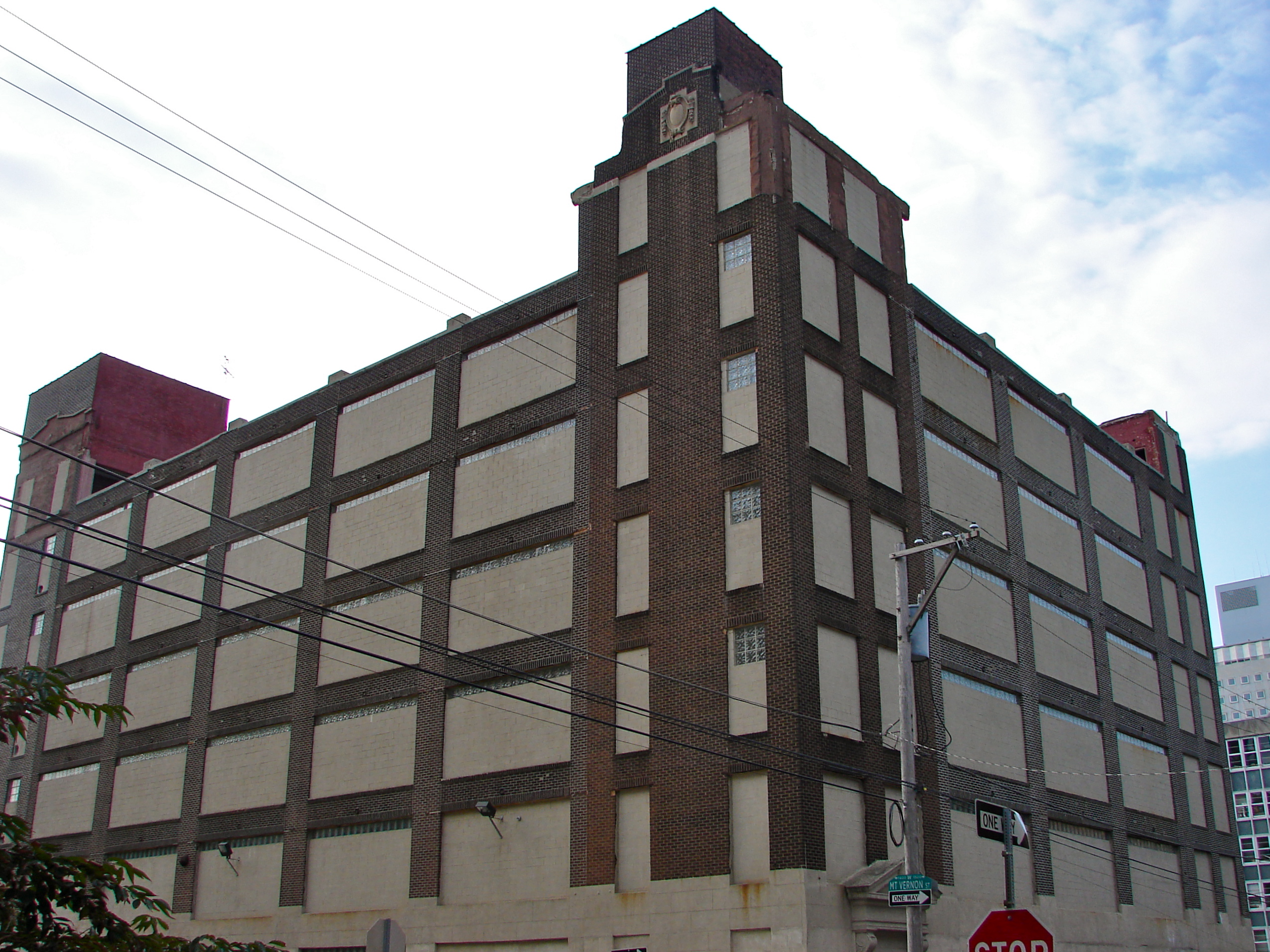 Biberman Building in Philadelphia, on the NRHP since September 14, 2007. At 611–619 North 15th Street in the Spring Garden neighborhood, one block west of Broad Street. At first glance this industrial building looks like it does not belong on the NRHP, but the nomination makes a good case.